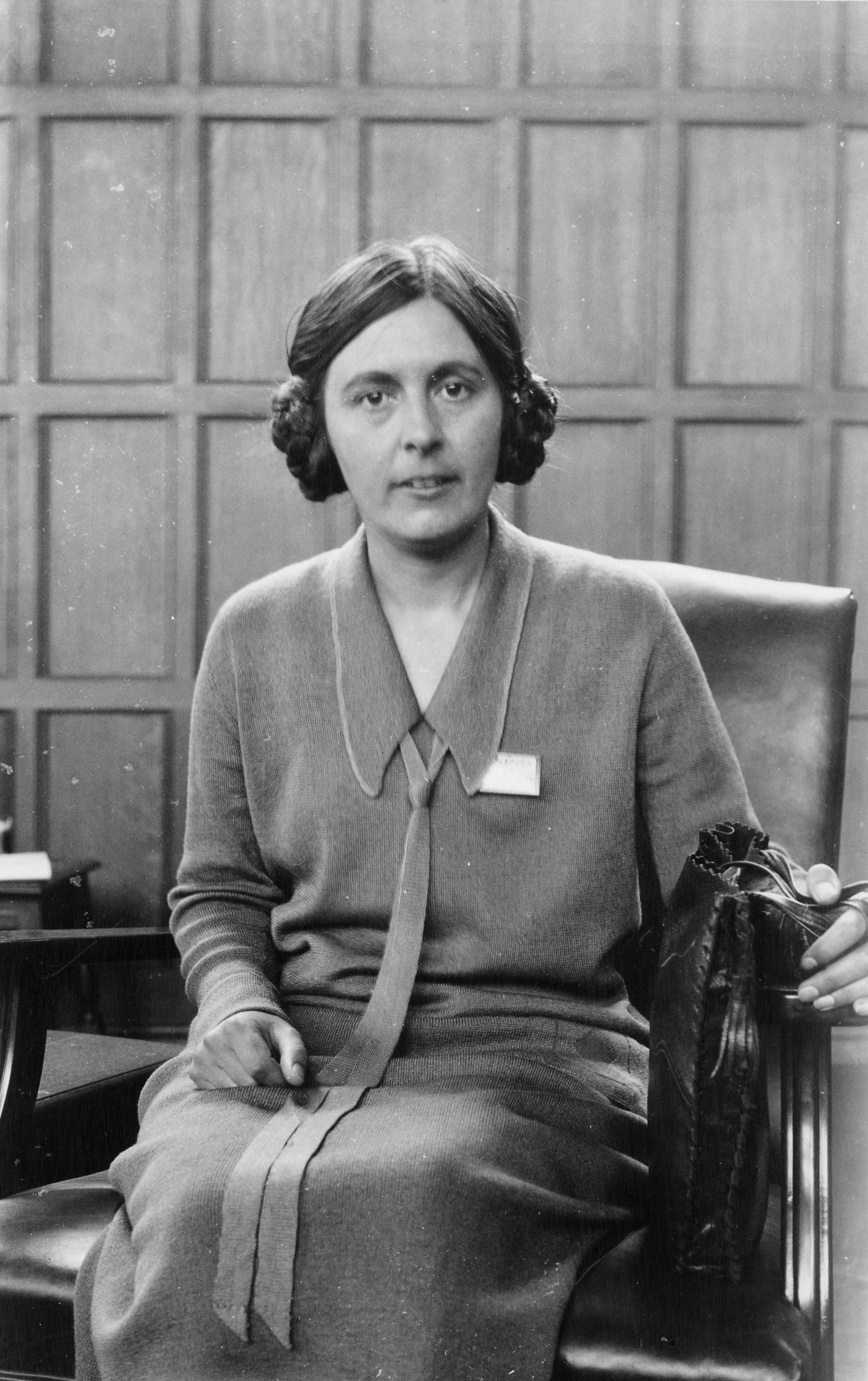 Description: The distinguished British botanist Kathleen Beyer Blackburn (1892-1968) taught at Armstrong College, Newcastle upon Tyne. In 1926, Science News Letter reported that "plants as well as animals have in their cells bits of living matter known as the sex chromosomes." This photograph was taken when she was attending a scientific meeting in the United States. Creator/Photographer: Unidentified photographer Medium: Black and white photographic print Persistent URL: Repository: Smithsonian Institution Archives Collection: Accession 90-105: Science Service Records, 1920s – 1970s - Science Service, now the Society for Science & the Public, was a news organization founded in 1921 to promote the dissemination of scientific and technical information. Although initially intended as a news service, Science Service produced an extensive array of news features, radio programs, motion pictures, phonograph records, and demonstration kits and it also engaged in various educational, translation, and research activities. Accession number: SIA2007-0252